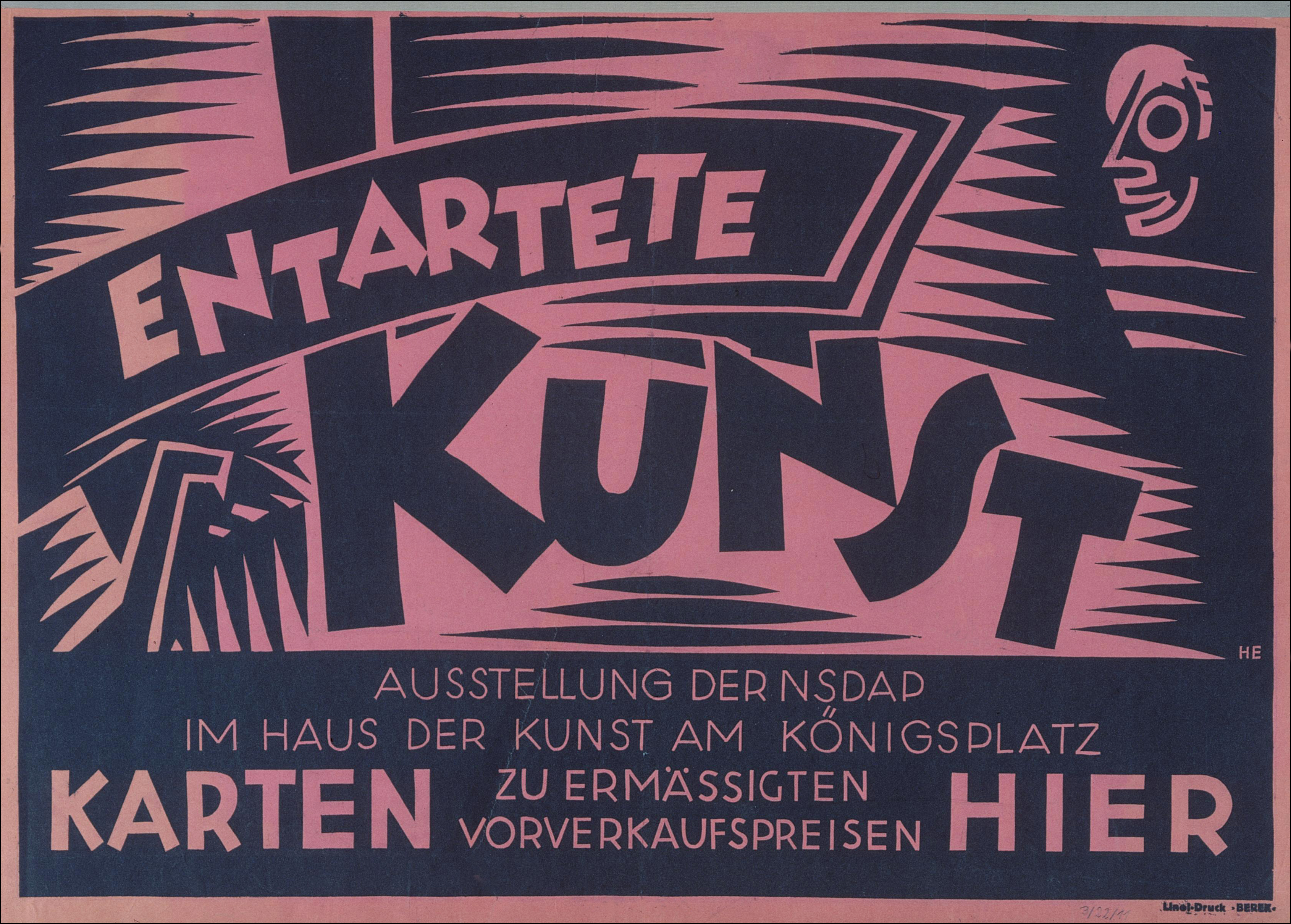 Entartete Kunst, Ausstellung der NSDAP im Haus der Kunst am Königsplatz, 1938. Publisher Berek, Berlin. Editor Nationalsozialistische Deutsche Arbeiterpartei.